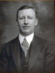 Reproduction of studio picture of Tommy Gorman for 1920-21 Ottawa Senators team picture.